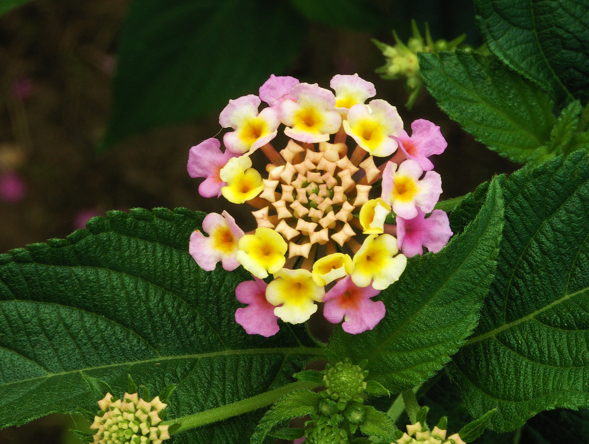 Flowers and leaves of Lantana camara